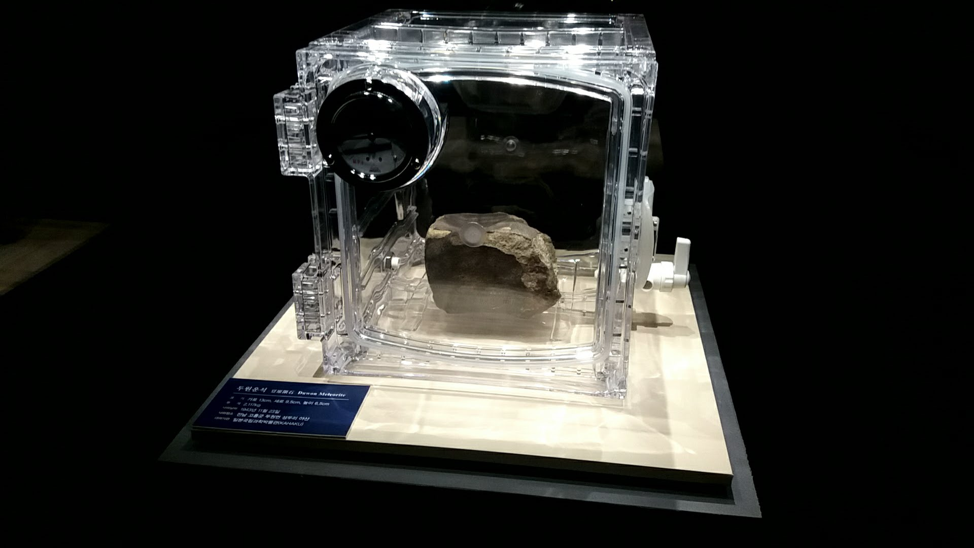 Duwon Meteorite.